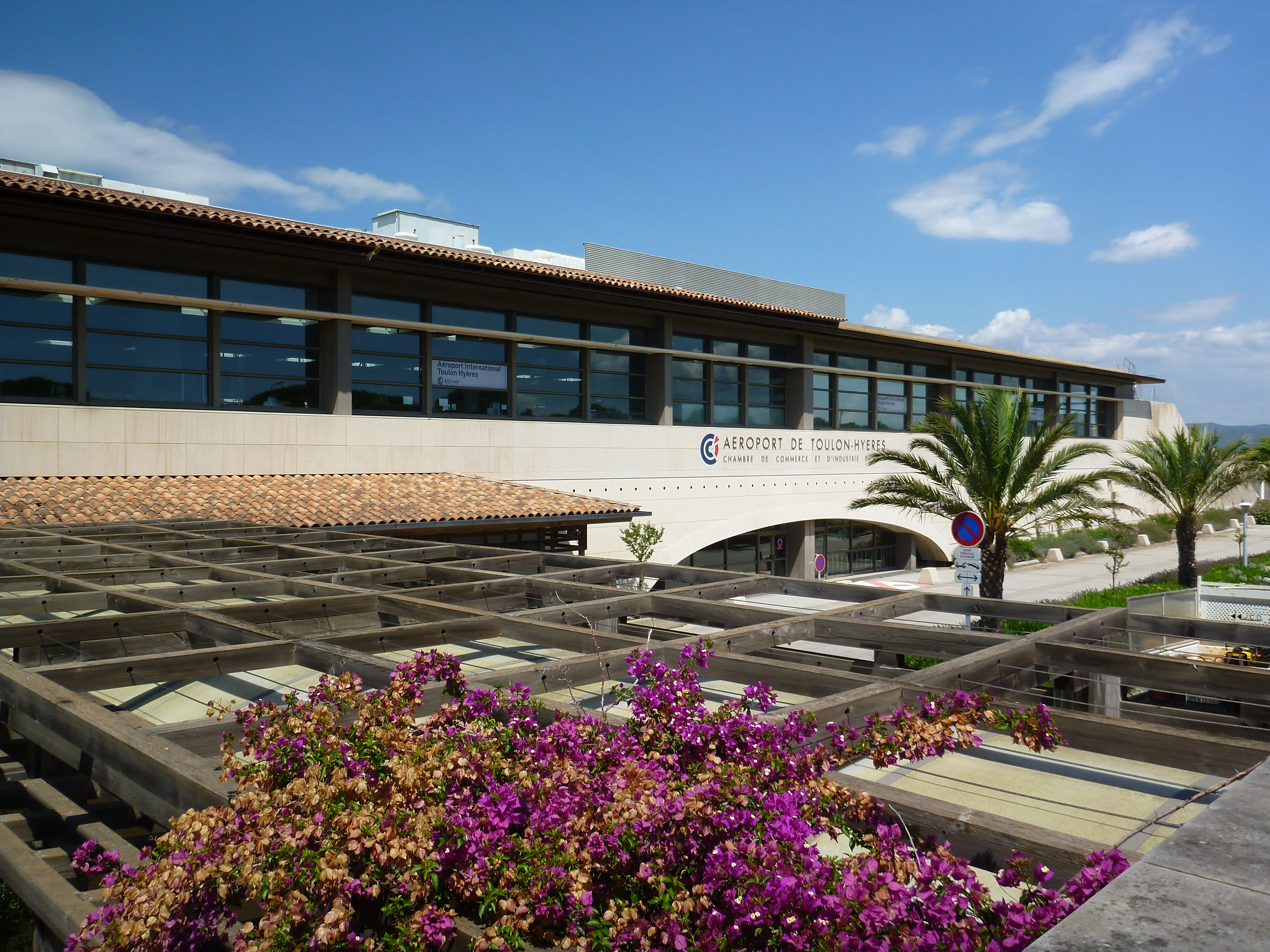 Main building on the civil part of the aéroport de Toulon-Hyères